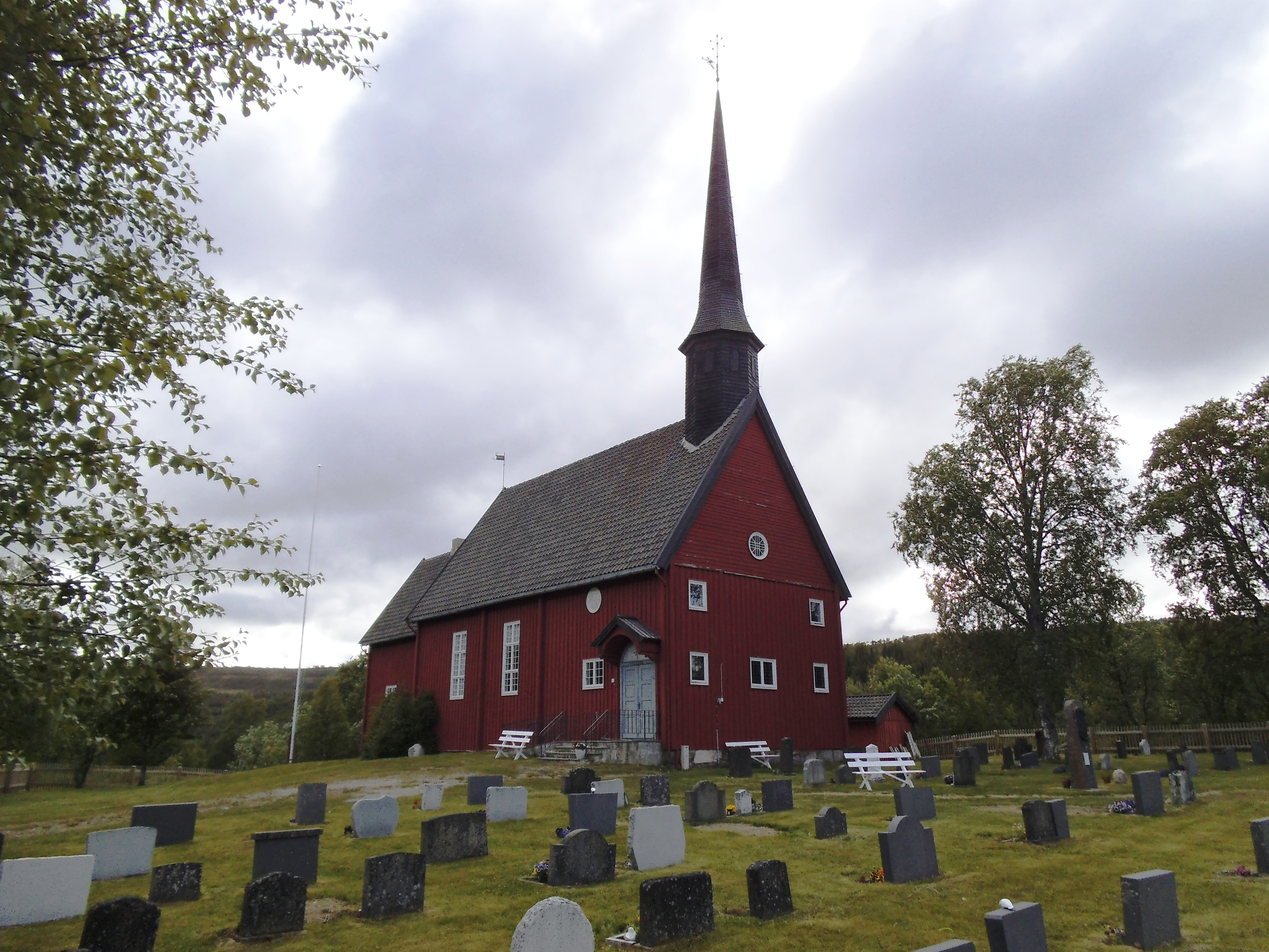 Hessdalen kirke. A church located in Hessdalen, Holtålen, Norway. It was built in 1940 and is made of wood.